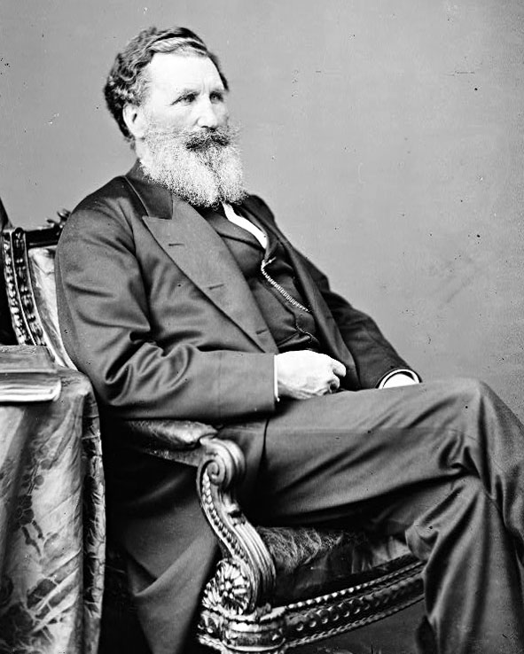 Joshua Hill, US Senator from Georgia